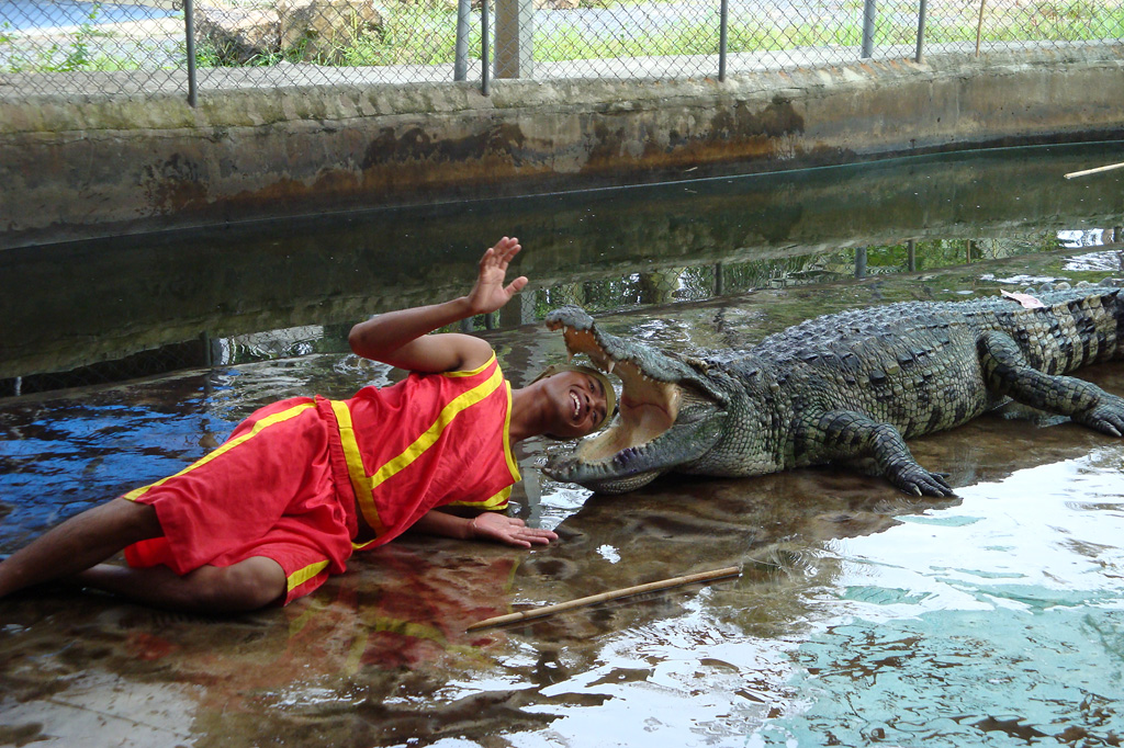 Show at Koh Samui Crocodile Farm, Thailand